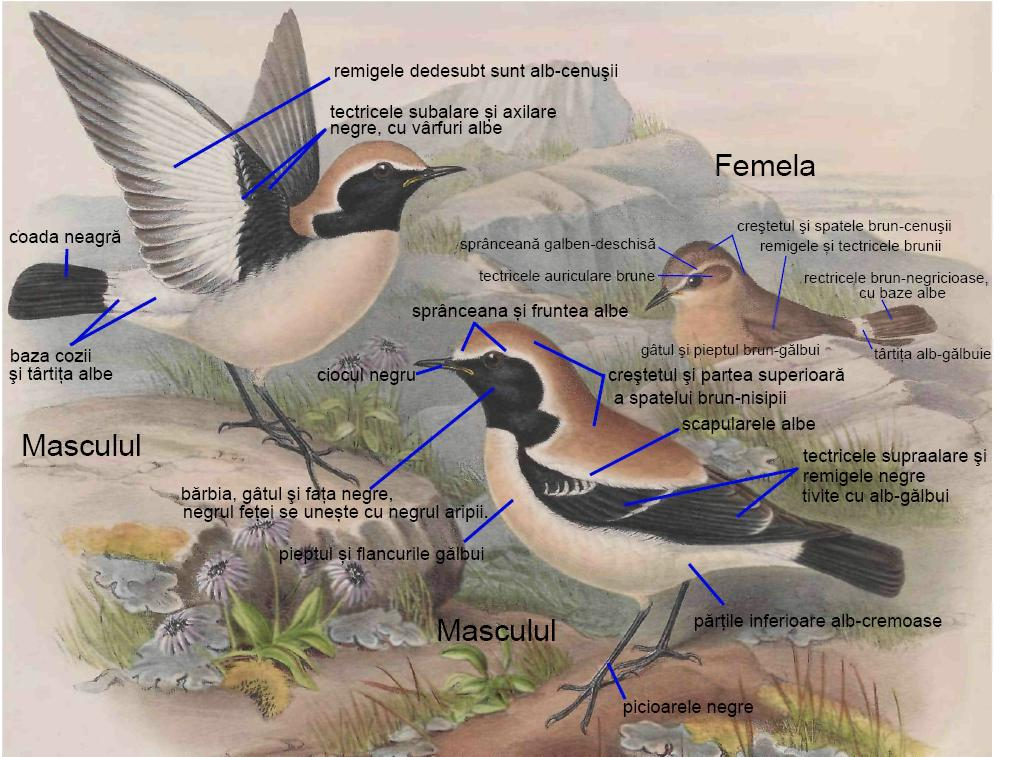 Oenanthe deserti, John Gould